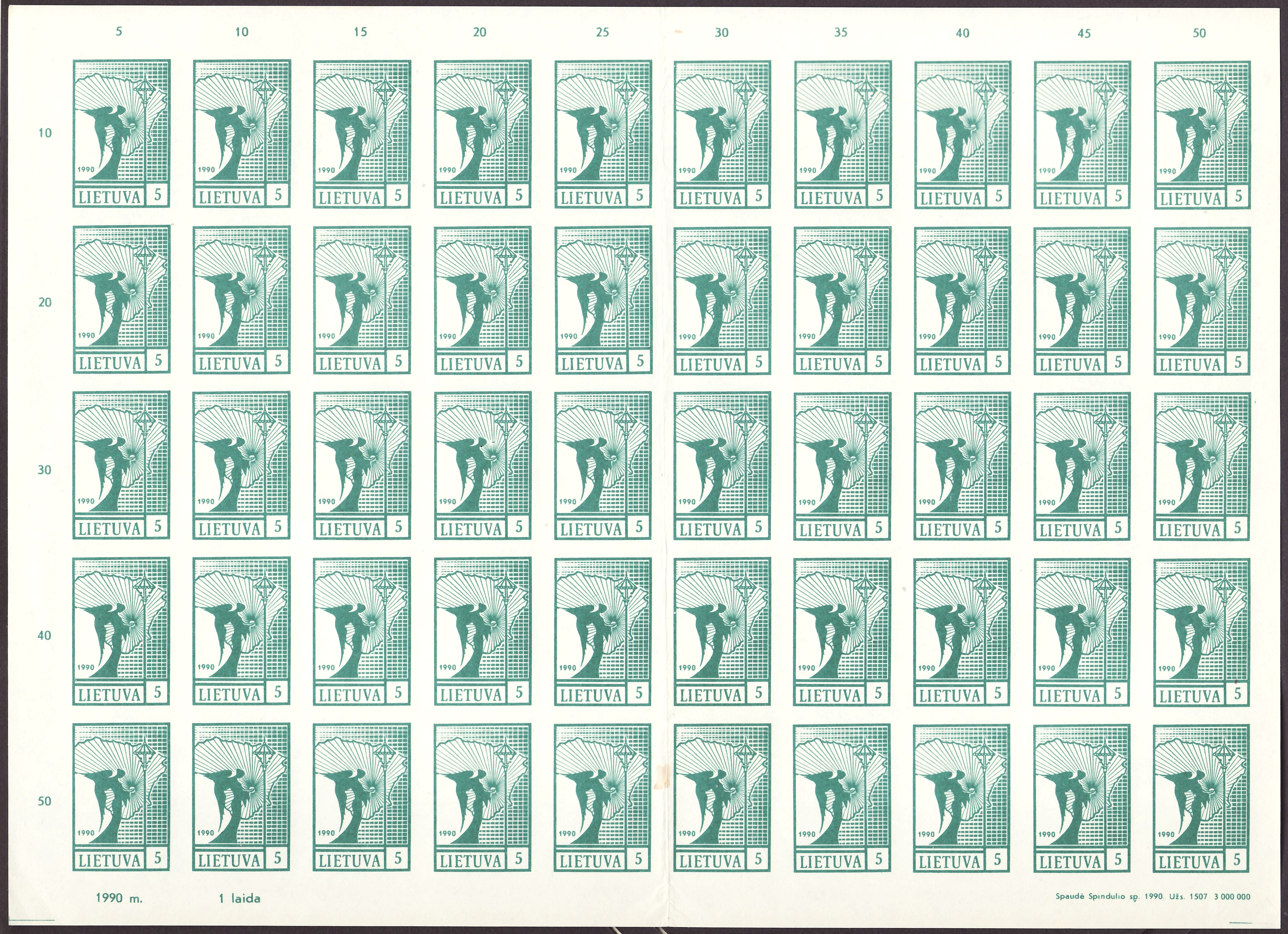 Stamp of Lithuania; 1990; counter sheet with the definitive stamp in the angel-drawing (First Angel Issue), imperforate; without gum; single stamp size 21 x 32 mm Stamp: Michel No. 457a (LT); Yvert & Tellier: No. 390 (LT); AFA: No. 454 (LT); Reikfil No. 1 (465) (LT); PZ No. 1 (LT) Color: green to dark blueish green Watermark: none Nominal value: 5 (Kopekai) (single stamp) Postage validity: from 7 October 1990 until 30 September 1992